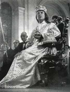 Marziano Lavarello, self-proclaimed Byzantine Emperor, in 1964